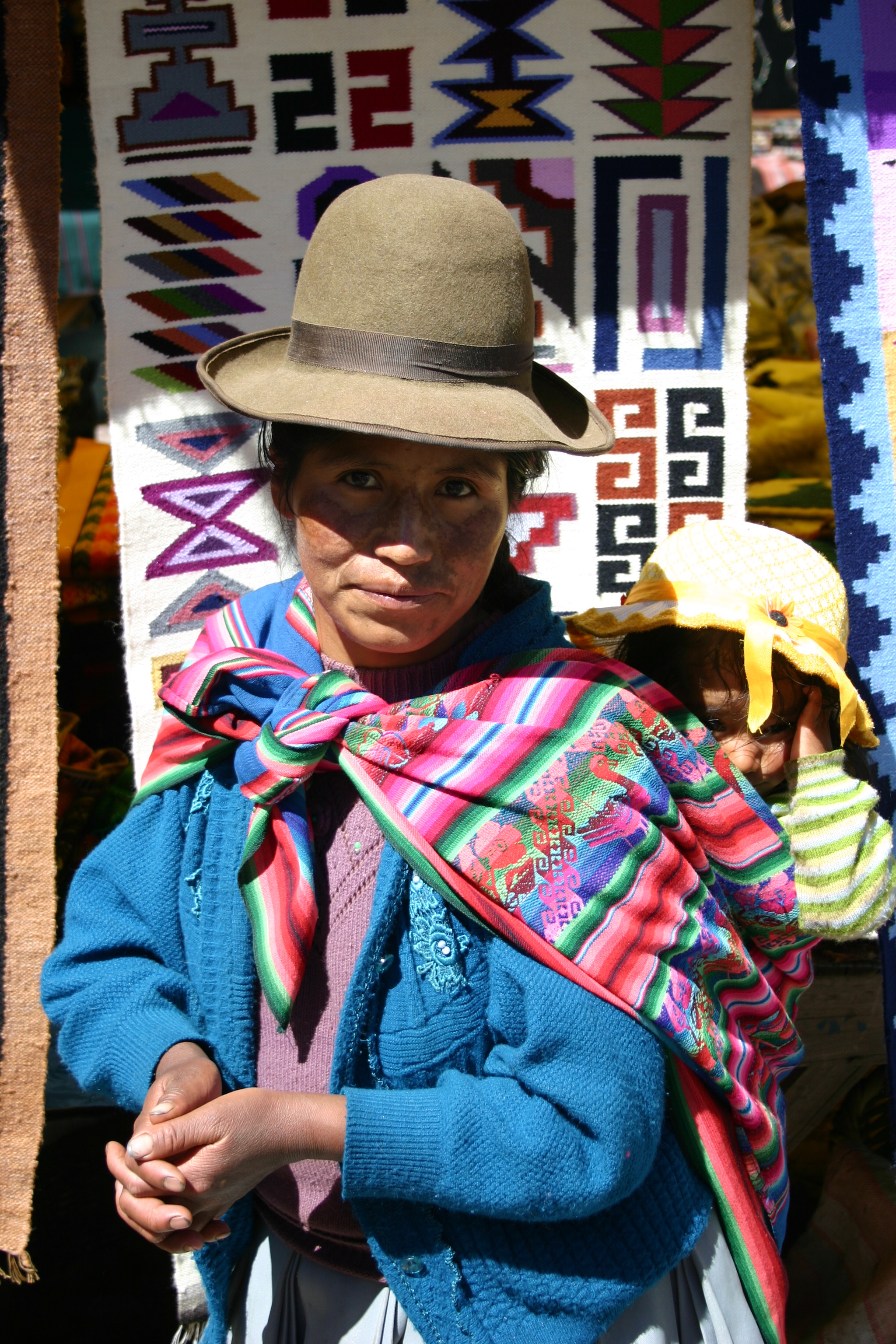 Will Fisher, taken in 2004 in Peru.